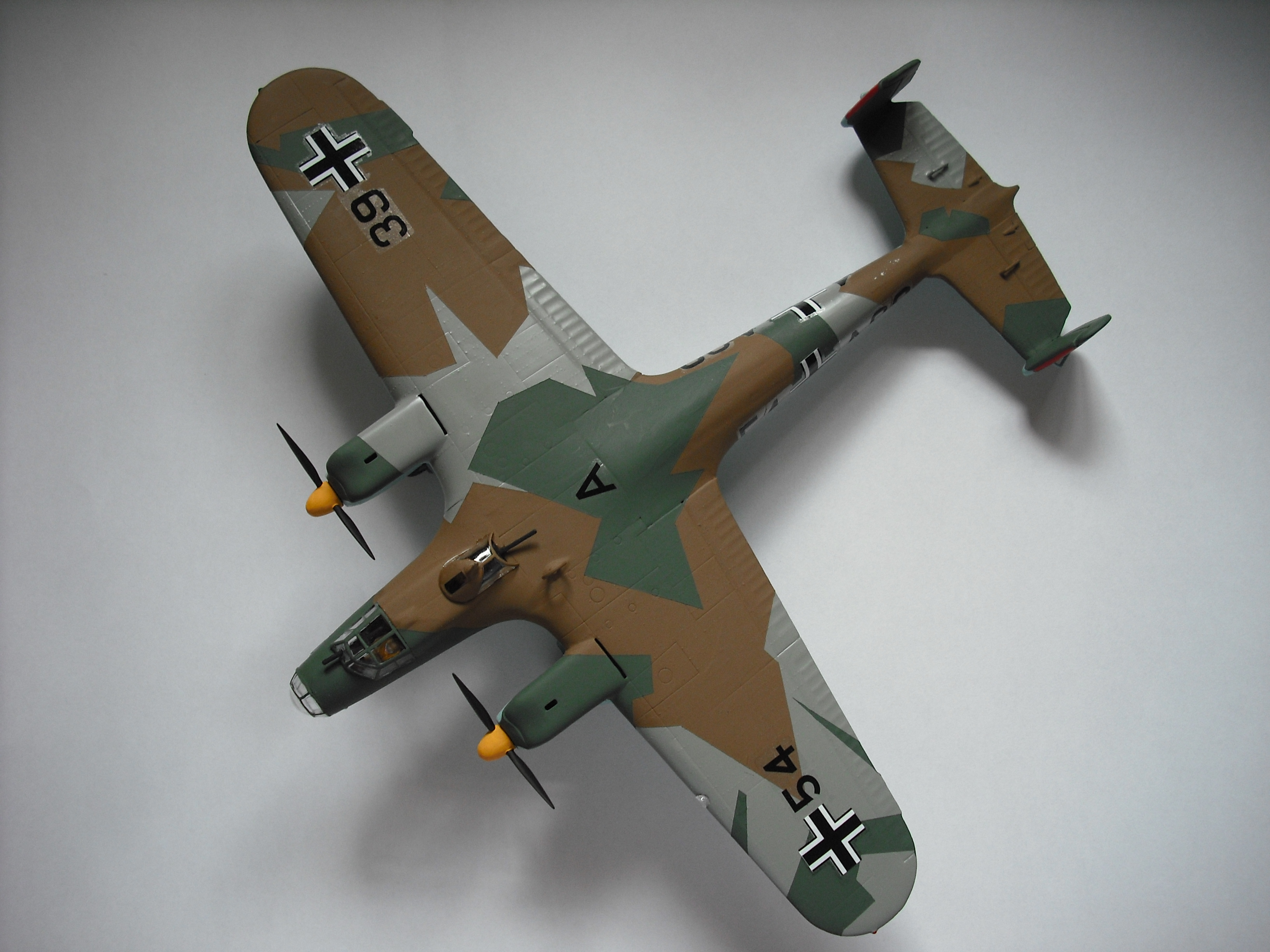 Airfix 1/72 scale model of a Luftwaffe pre-war Dornier Do 17 E (or F?)